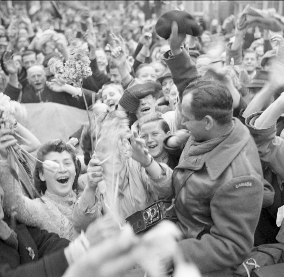 Citizens of Utrecht celebrating the liberation of the city by the Canadian Army, 7 May 1945.